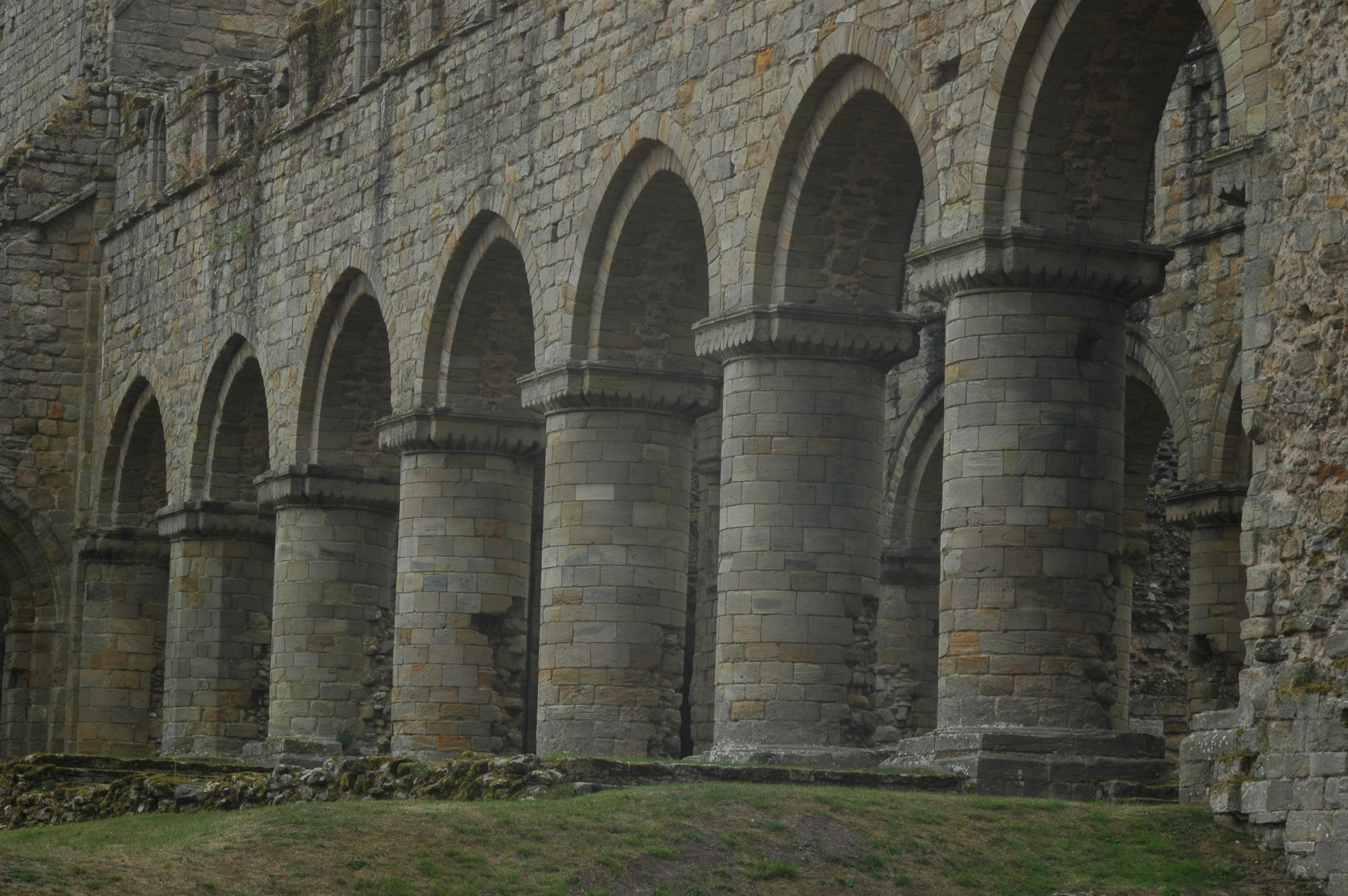 Buildwas Abbey